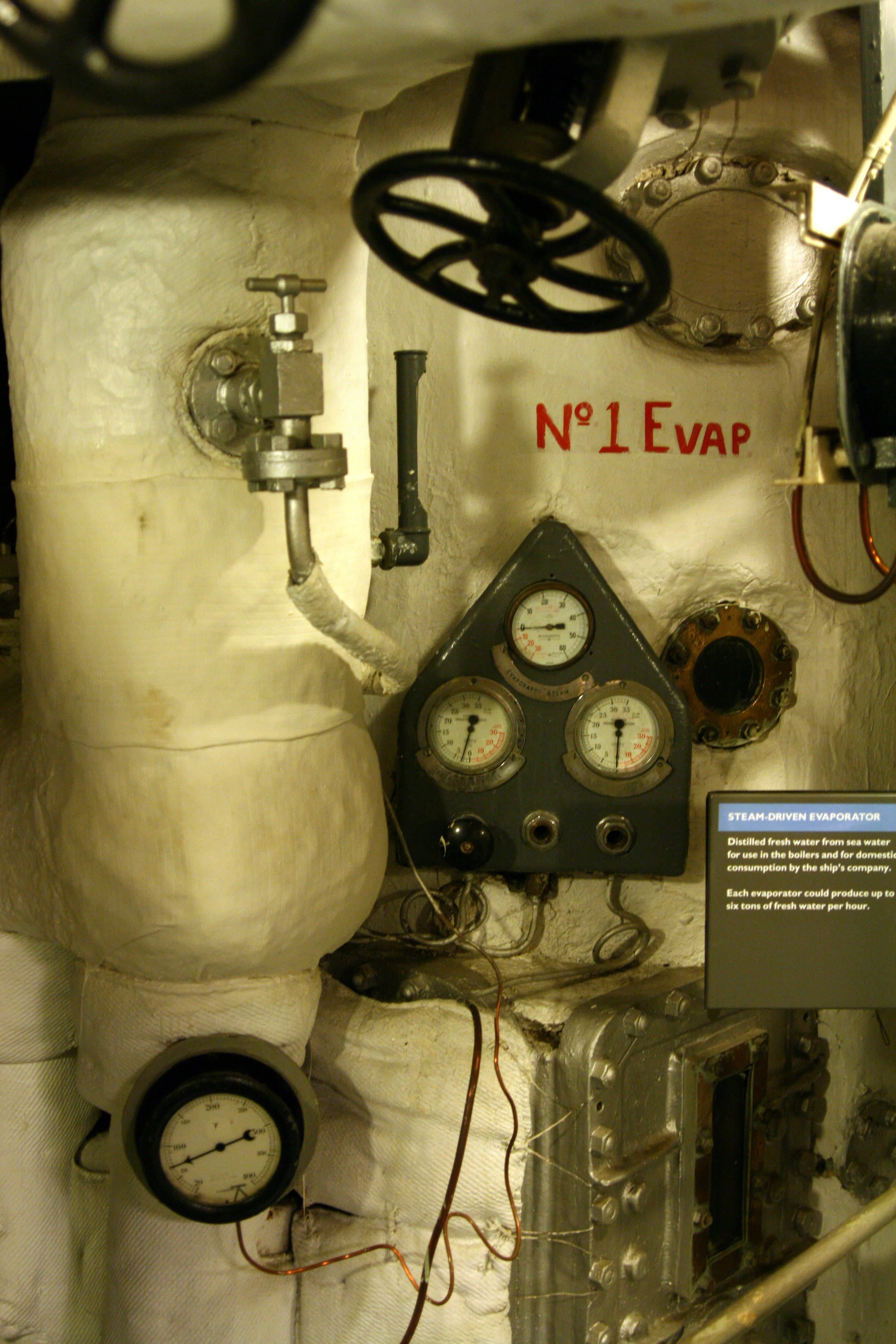 Steam evaporator on HMS Belfast, which distilled fresh water from sea water to be used for the boiler and for drinking. One evaporator produced six tons of fresh water per hour.